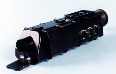 FCS of the XM29 OICW